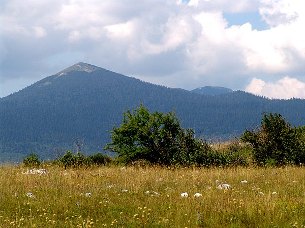 Sator mountain, Bosnia and Herzegovina